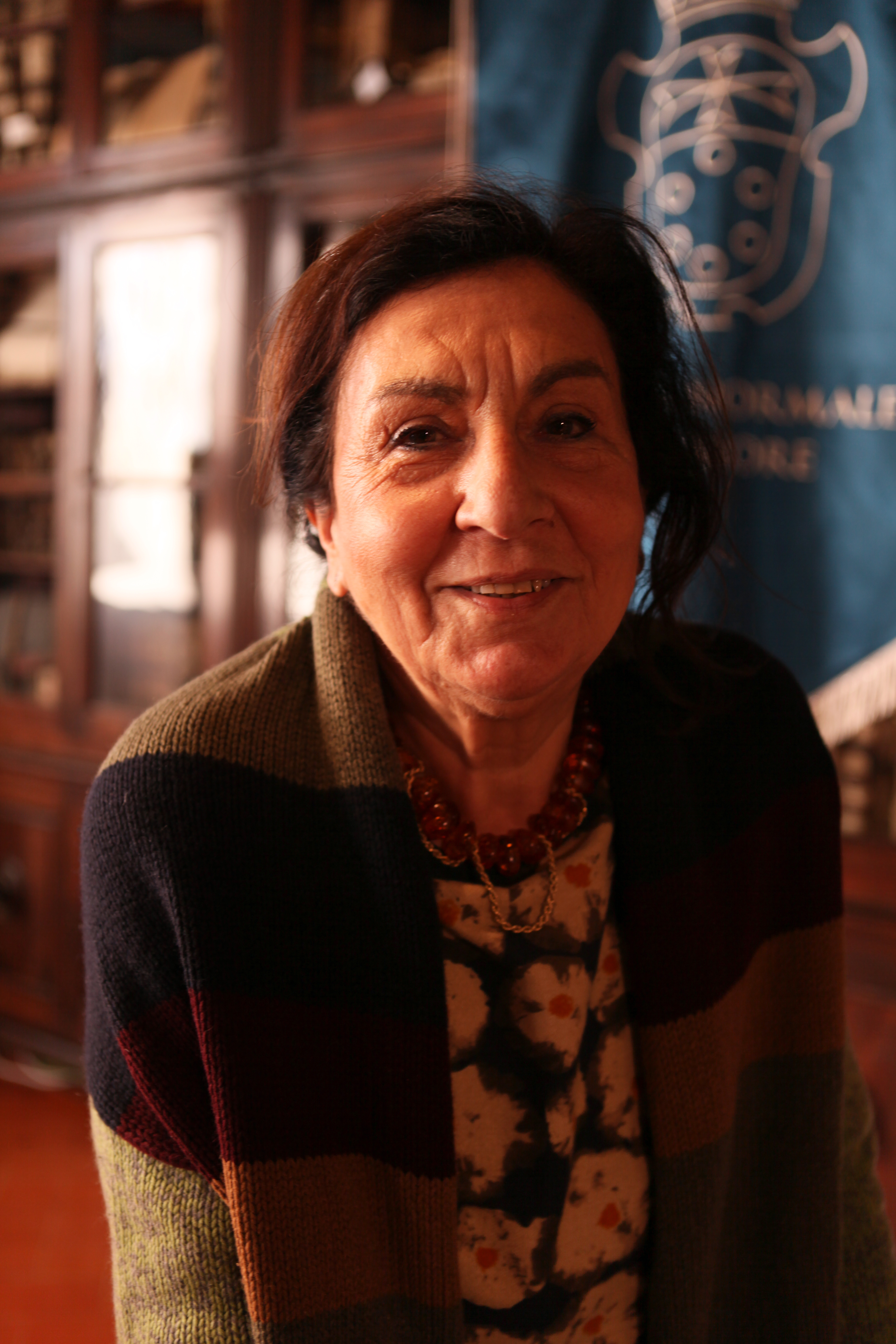 Nadia Fusini